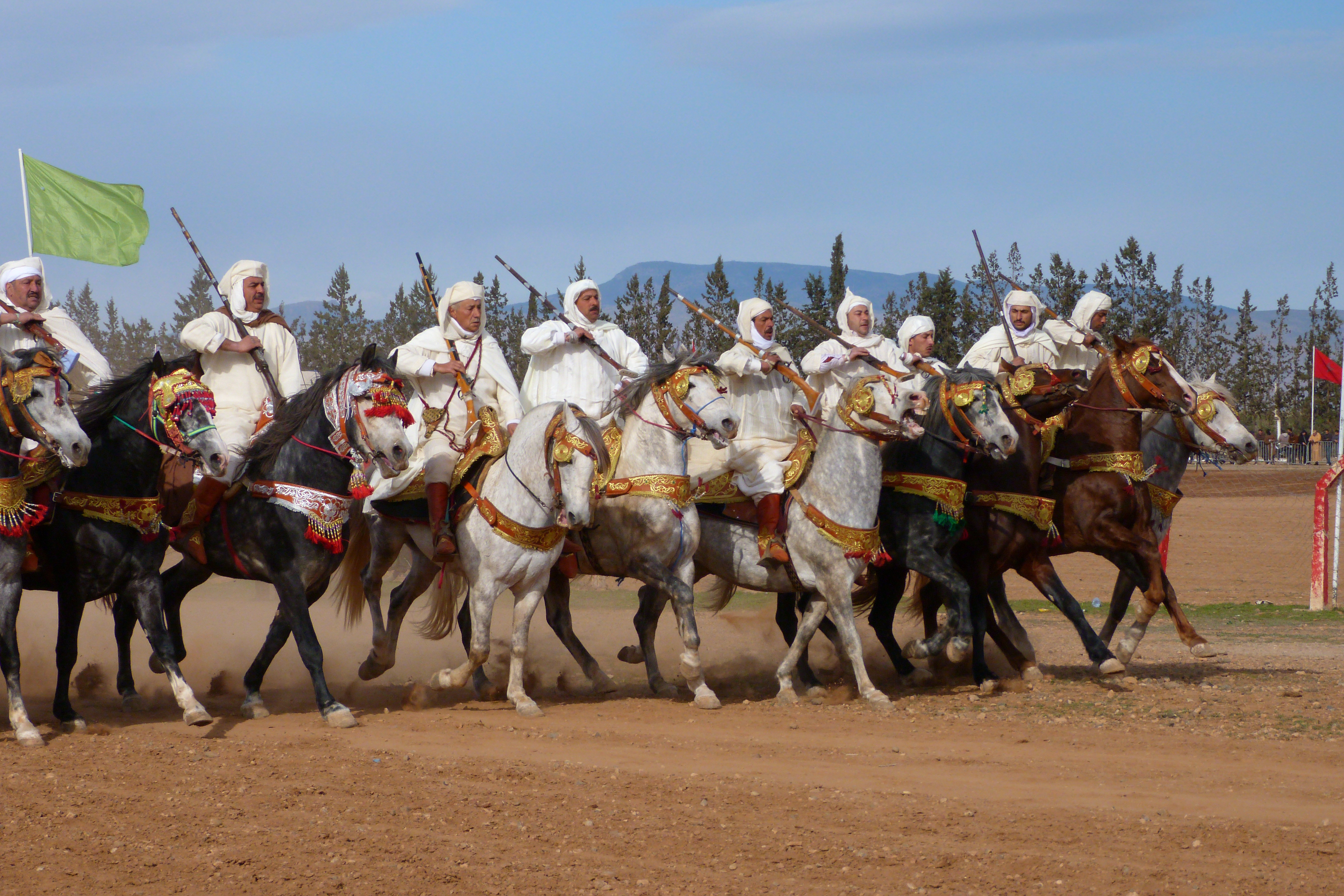 Fantasia at Beni Drar in the region of Oujda, Morocco, region Oriental.